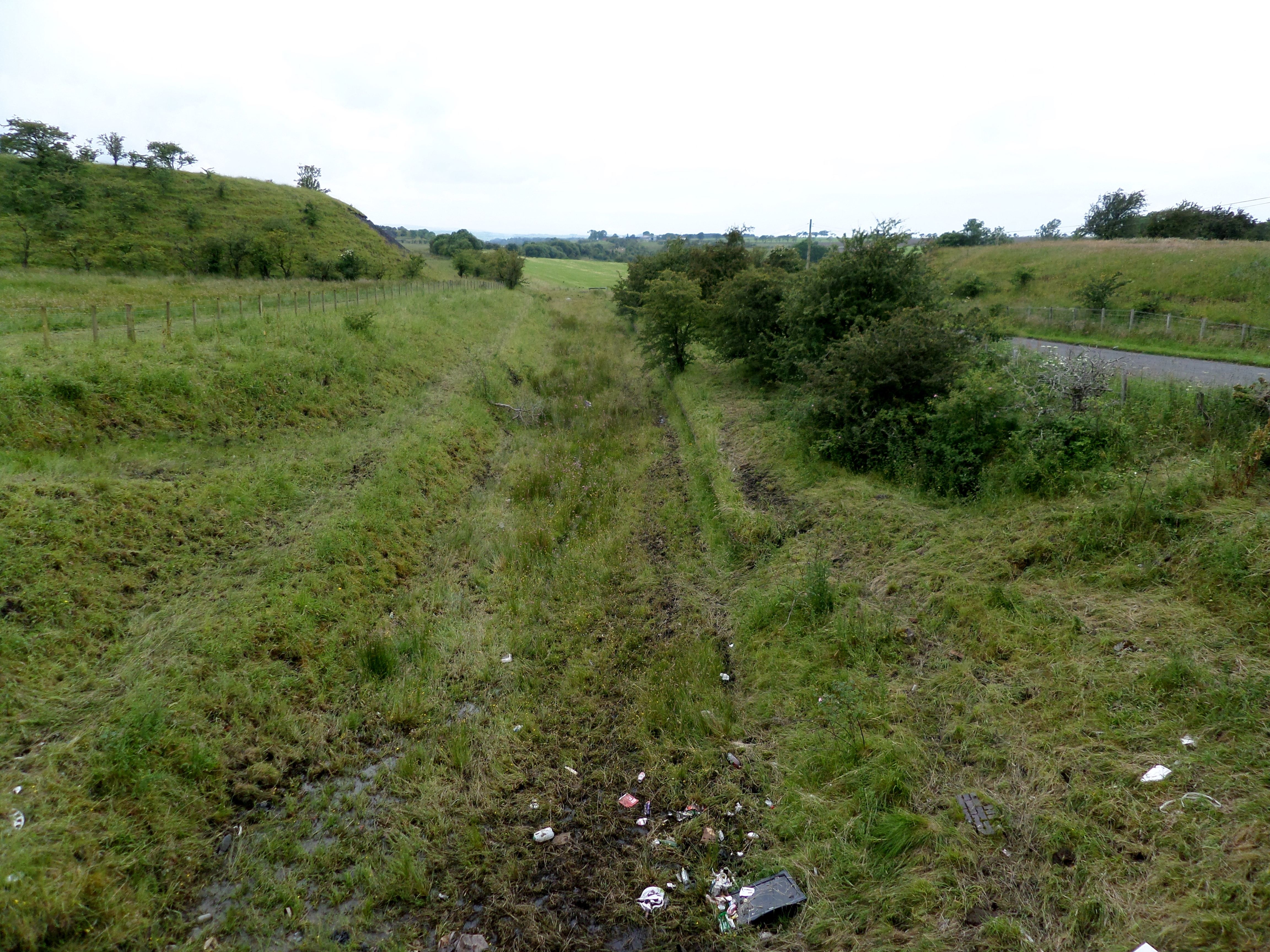 Commondyke railway station site and old passenger ramp, Near Auchinleck, East Ayrshire, Scotland.